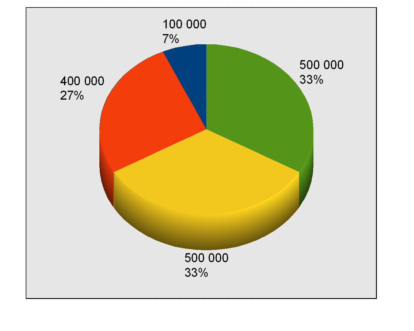 3-D pie chart diagram showing worldwild sales figures of Björk's third album, Homogenic, at the end of the year 1998 (blue: Great Britain; red: France; yellow: rest of Europe; green: rest of world).